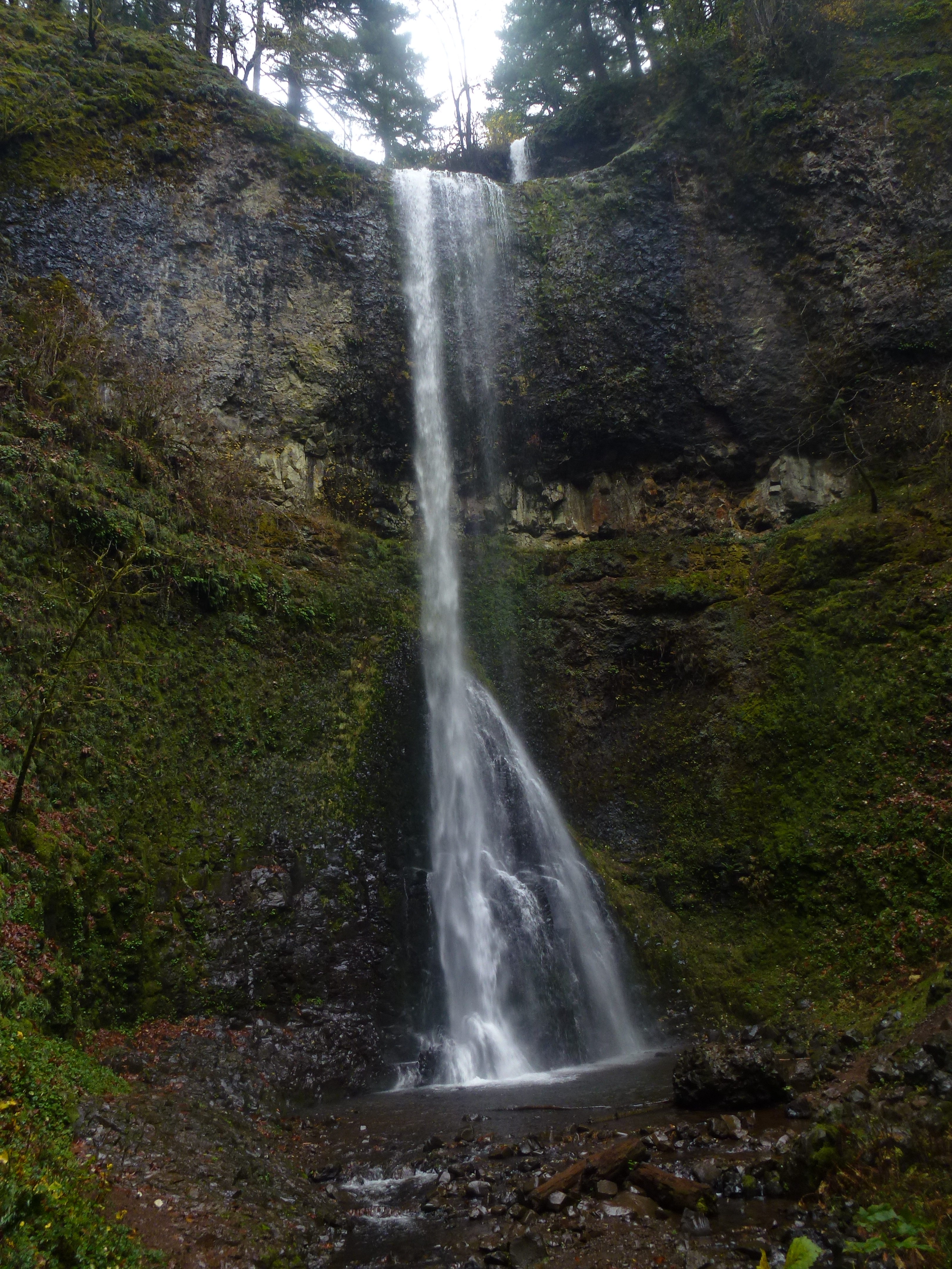 178-foot (54 m) tall Double Falls in Silver Falls State Park.